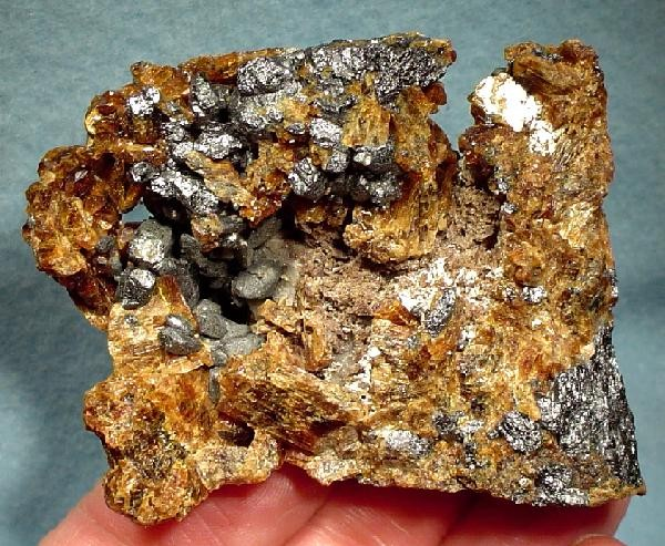 Braunite, Richterite Locality: Långban, Filipstad, Värmland, Sweden (Locality at ) Size: 6.3 x 4.9 x 3.8 cm. An old-time, very rare and superb combination piece from the world famous Langban deposit of Sweden. Sharp, lustrous, gray braunite crystals to 7 mm are richly and aesthetically invested on both sides of the contrasting, very vuggy matrix of solid crystallized richterite. The richterites on this fabulous and classic piece are very highly lustrous and many of the crystals are gemmy. Ex. George English and University of Chicago Collections.